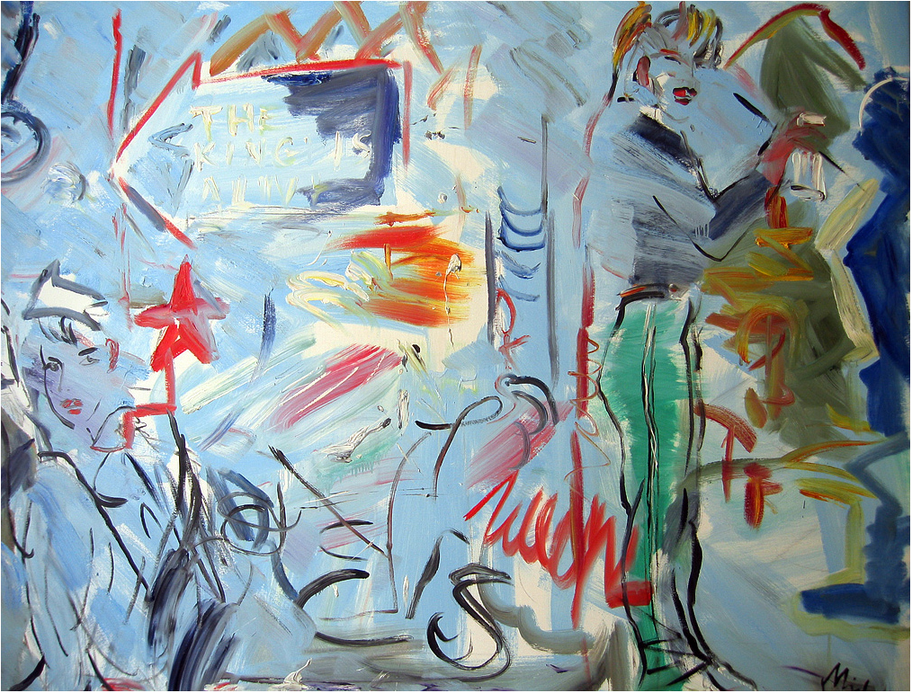 Rastislav Michal, Graffiti (2003), oil painting on canvas